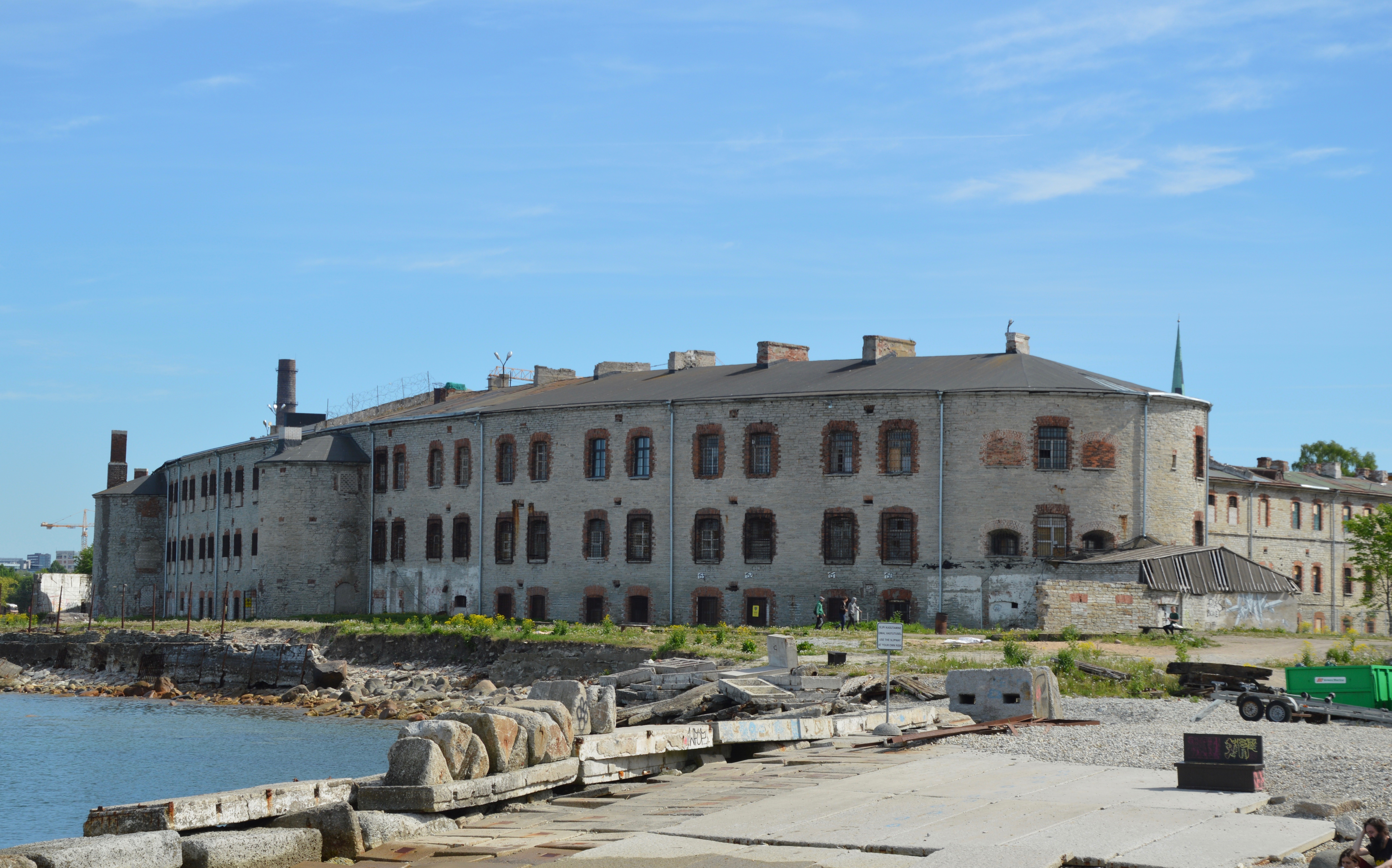 Keskvangla (Central Prison) in Tallinn, a view from Lennusadam